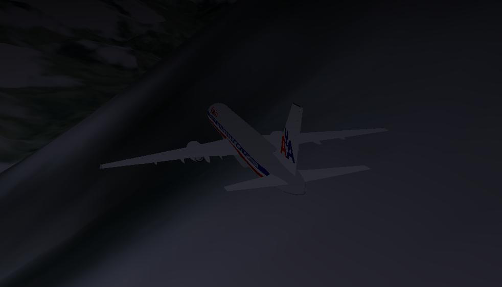 Flight 965 was a Boeing 757 which suffered a Controlled Flight into Terrain accident in Columbia, with only four survivors.